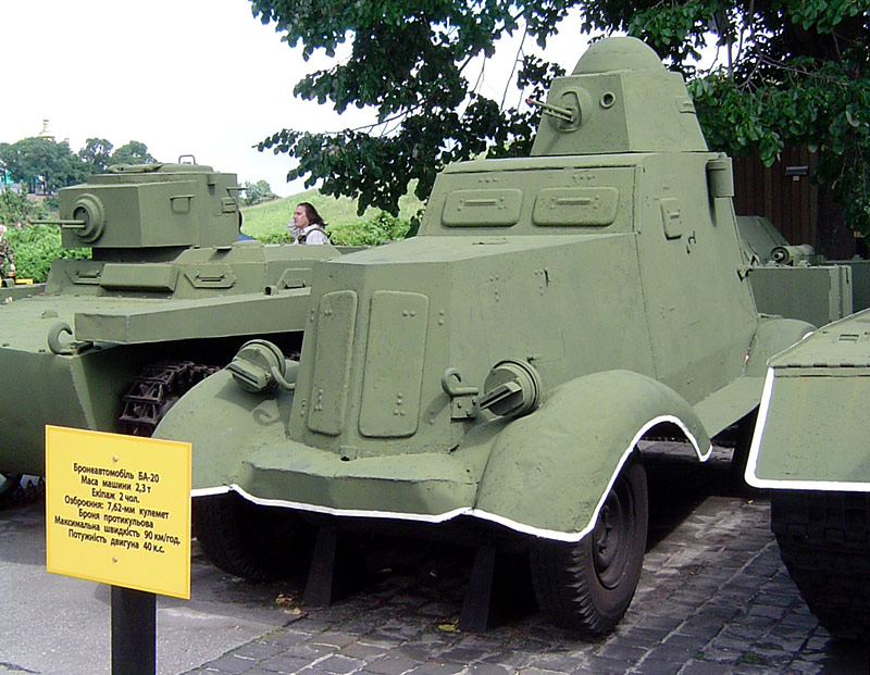 Soviet Ba-20 armored car on display near the Museum of the Great Patriotic War, Kiev, Ukraine.